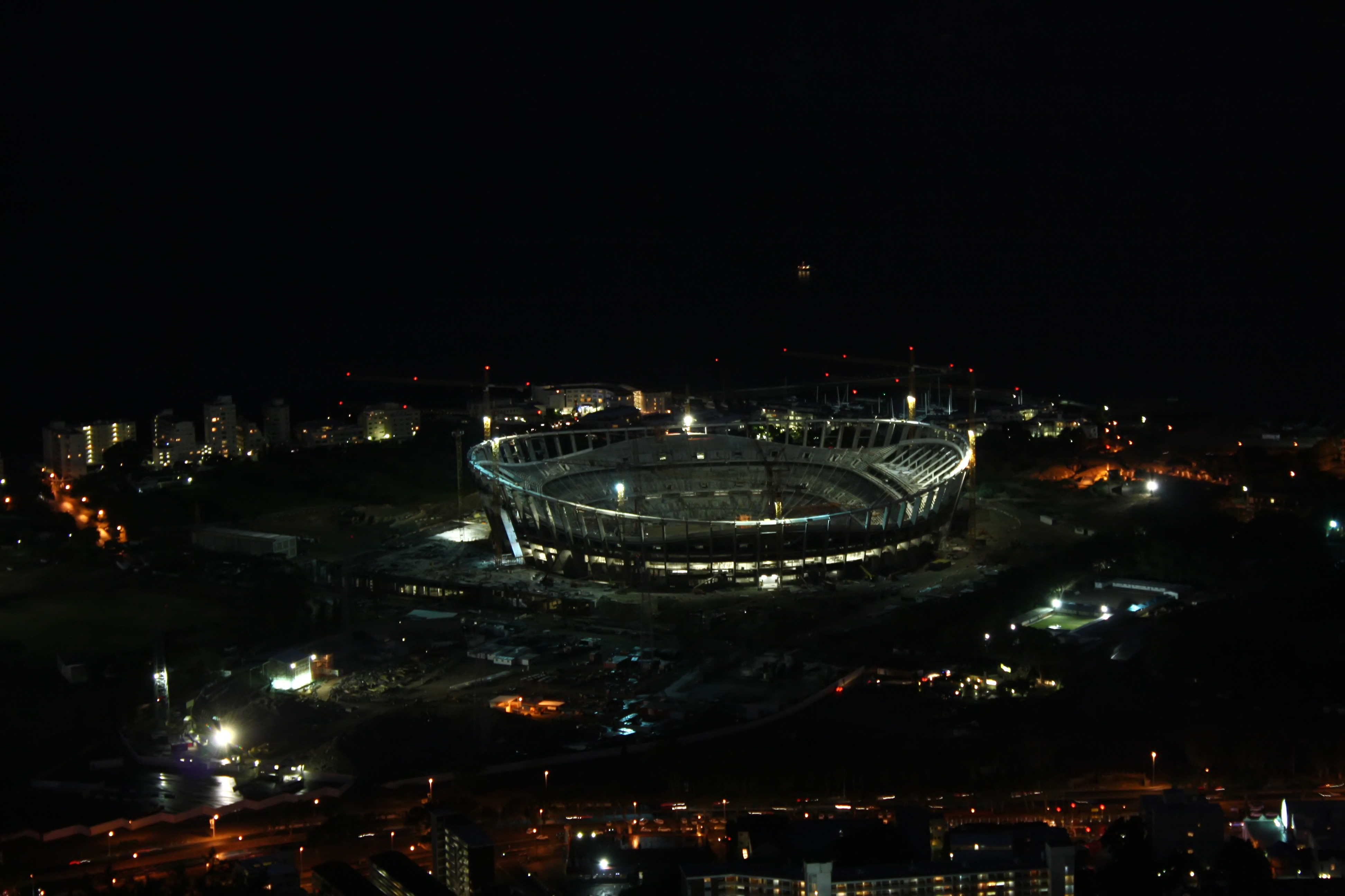 Cape Town's 2010 FIFA World Cup stadium under construction by night, Februry 2009. See also File:Green Point Stadium by Warren Rohner - January 2009.jpg for a recent daytime shot from the same vantage point.